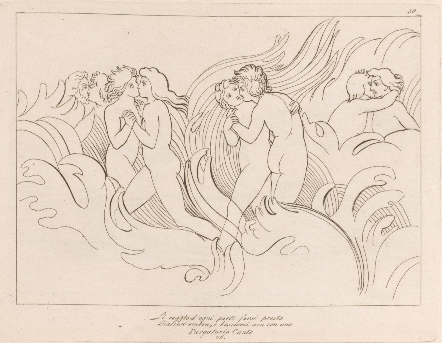 Engraving: Lì veggio d'ogni parte from Divina Commedia by Dante - illustration designed by John Flaxman, engraved by Tommaso Piroli.